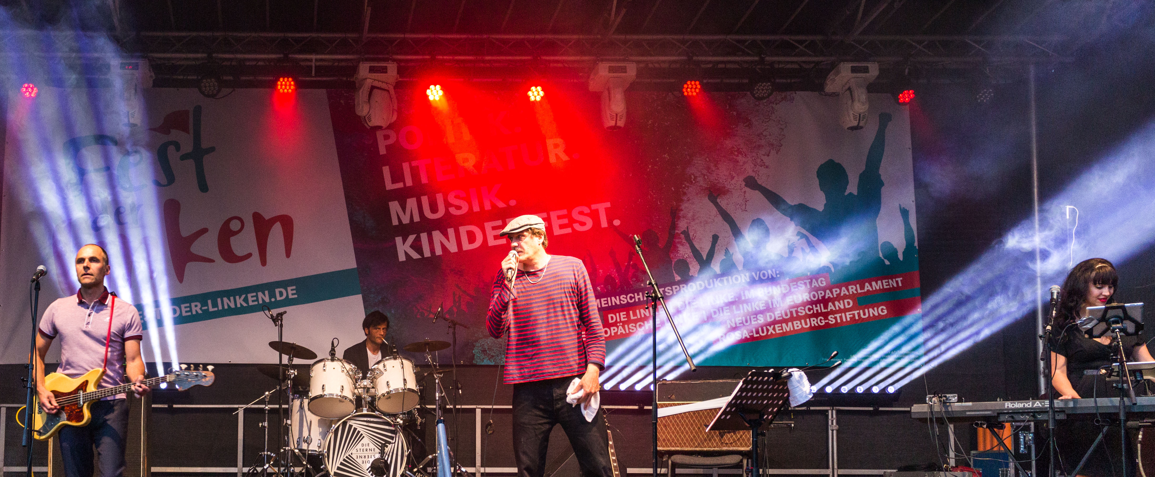 Die Sterne, September 2015, Berlin